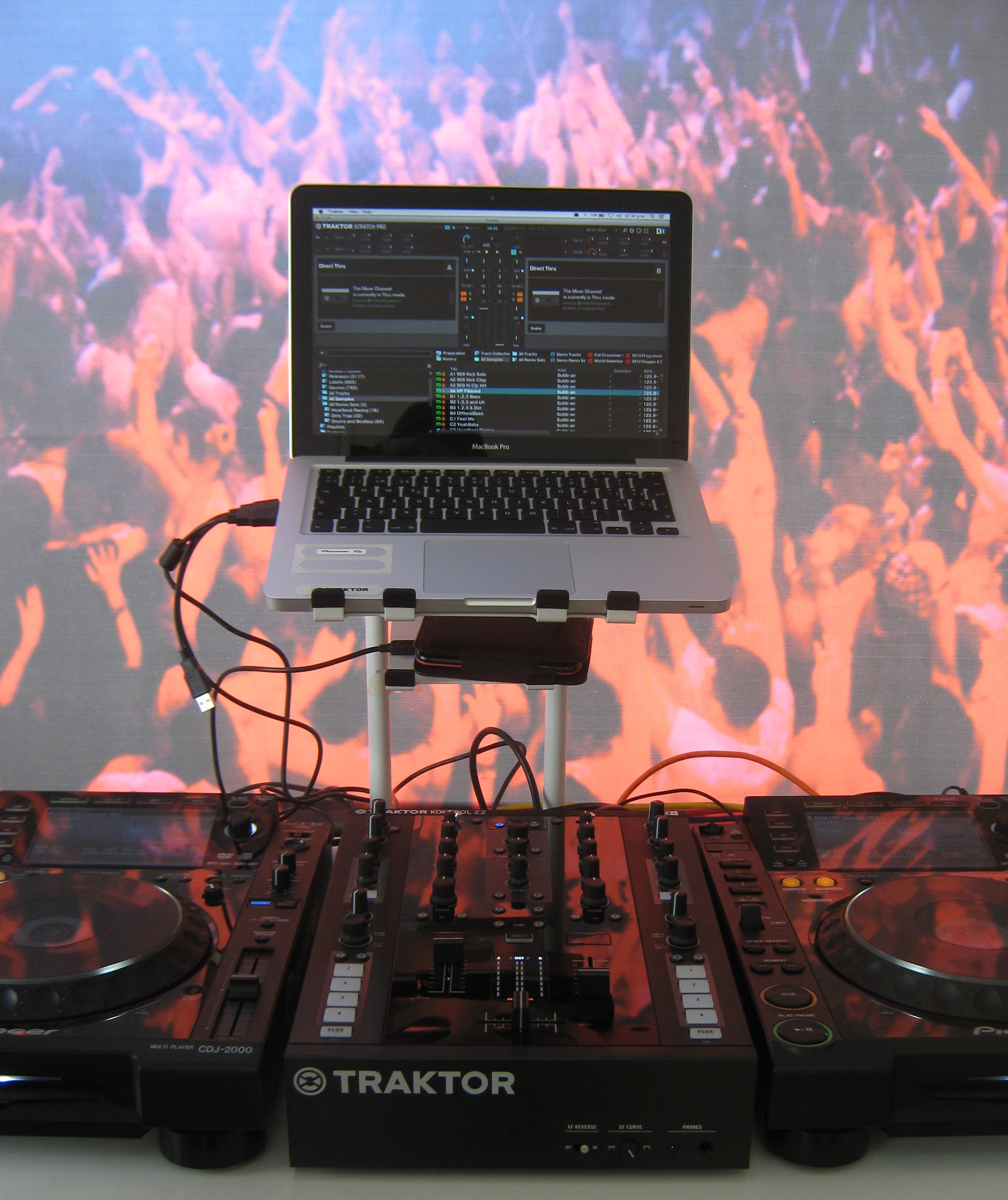 Traktor Kontrol Z2 @ Templo DJ Tags: nativeinstruments traktor templodj z2 audiotecna ortofondj moogmusic Ortofon DJ Minimoog